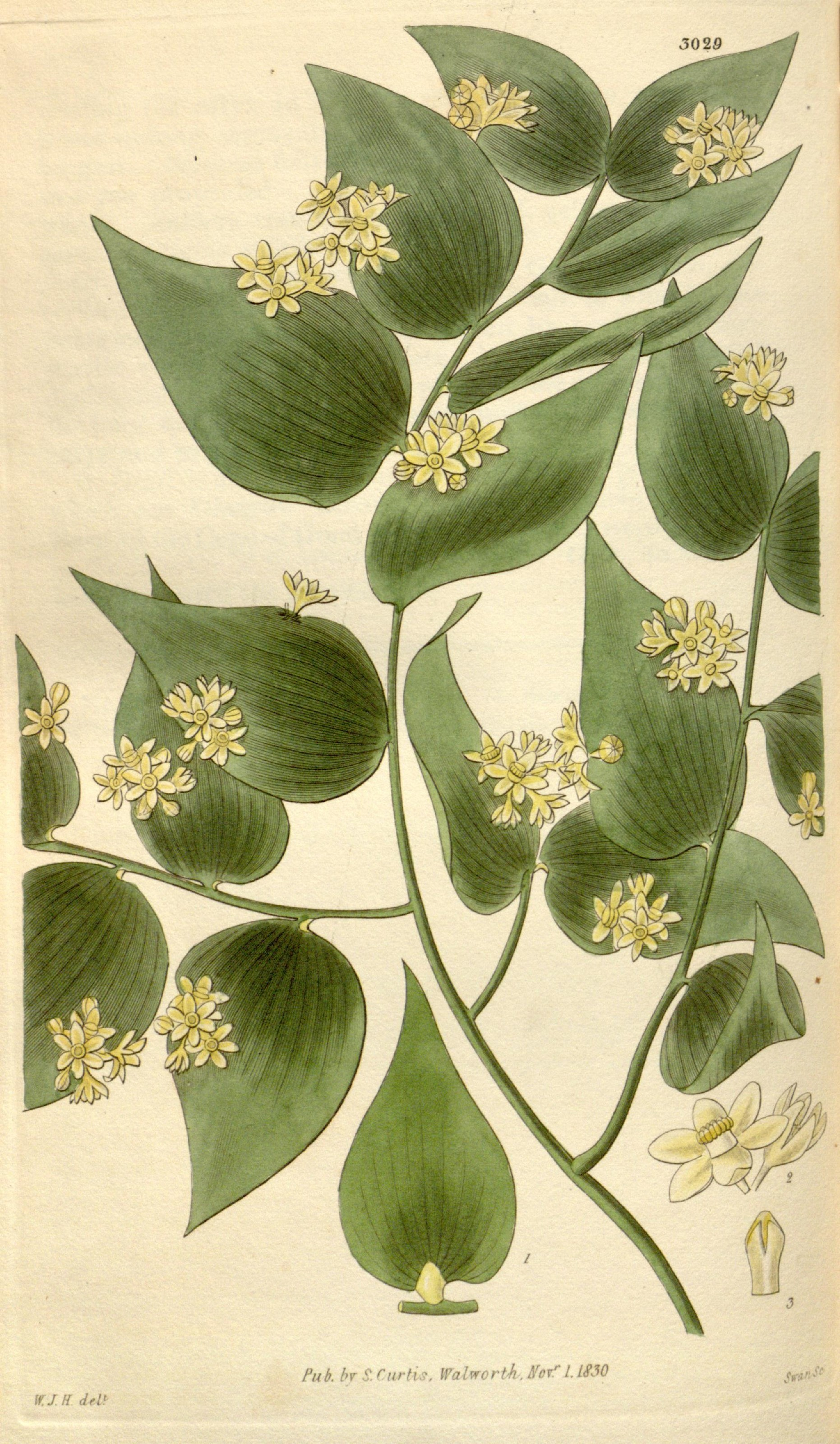 Listed in the magazine as Ruscus androgynus it is now accepeted as Semele androgyna.